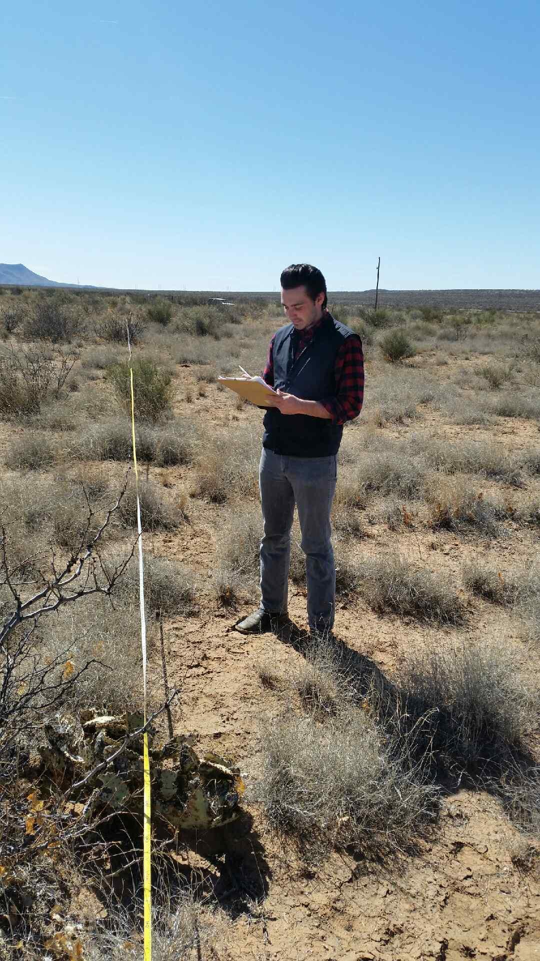 Range management graduate research student collecting line point intercept data